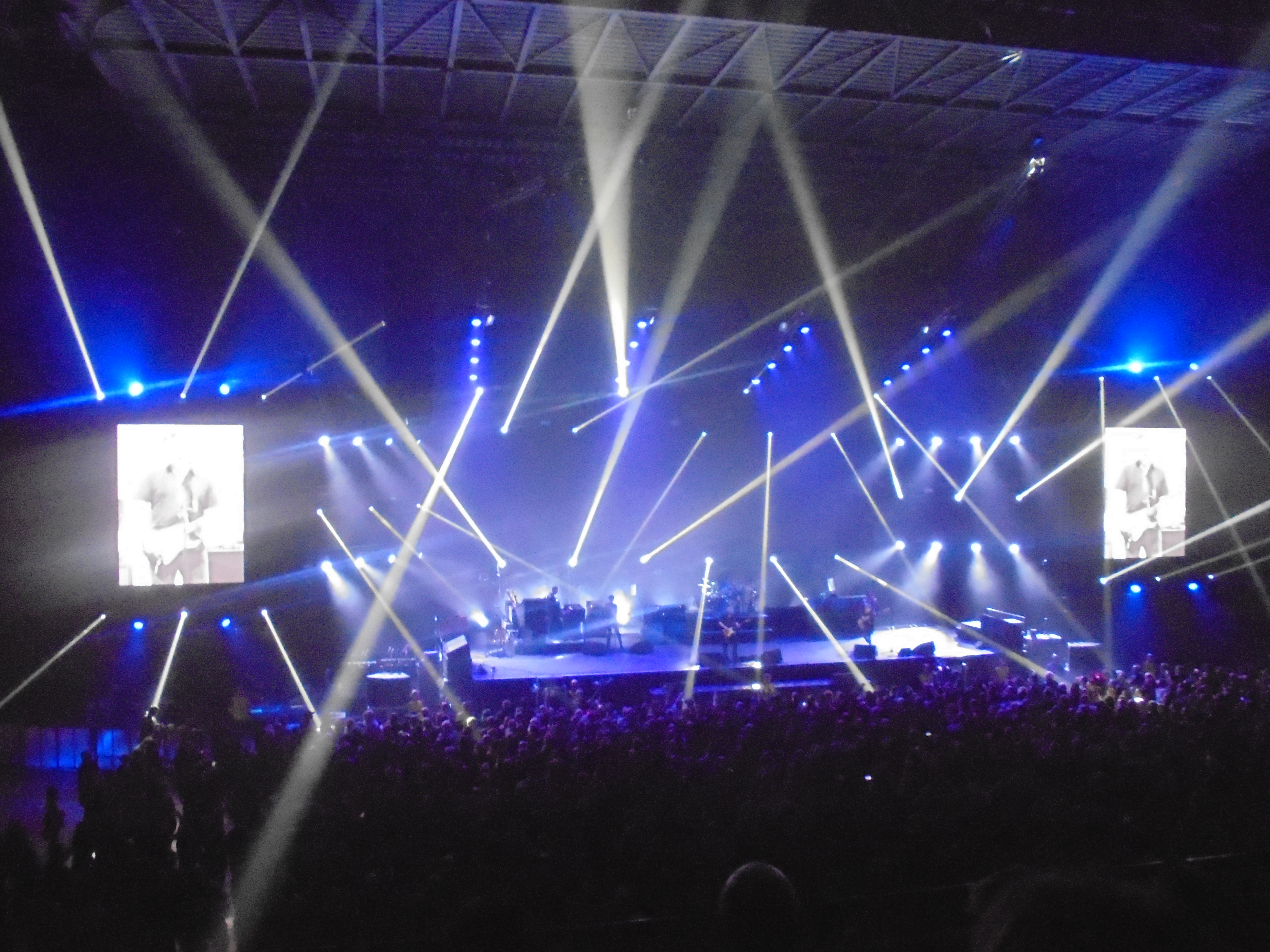 Manic Street Preachers at First Direct Arena, Leeds, West Yorkshire. Taken from the lower of the two raised tiers on the evening of Wednesday the 2nd of May 2018.